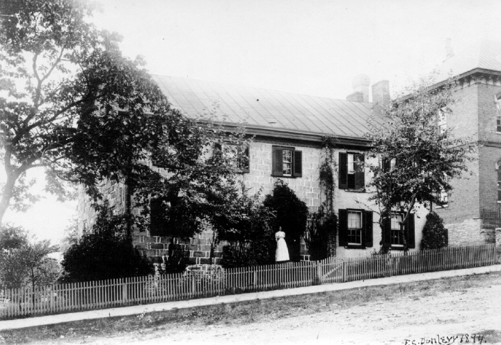 Roberts House in Canonsburg, Pennsylvania. Photo taken Force C. Dunlevy in 1894. The woman at the door, seen in an enlargement, center, is identified as "Miss Snyder."